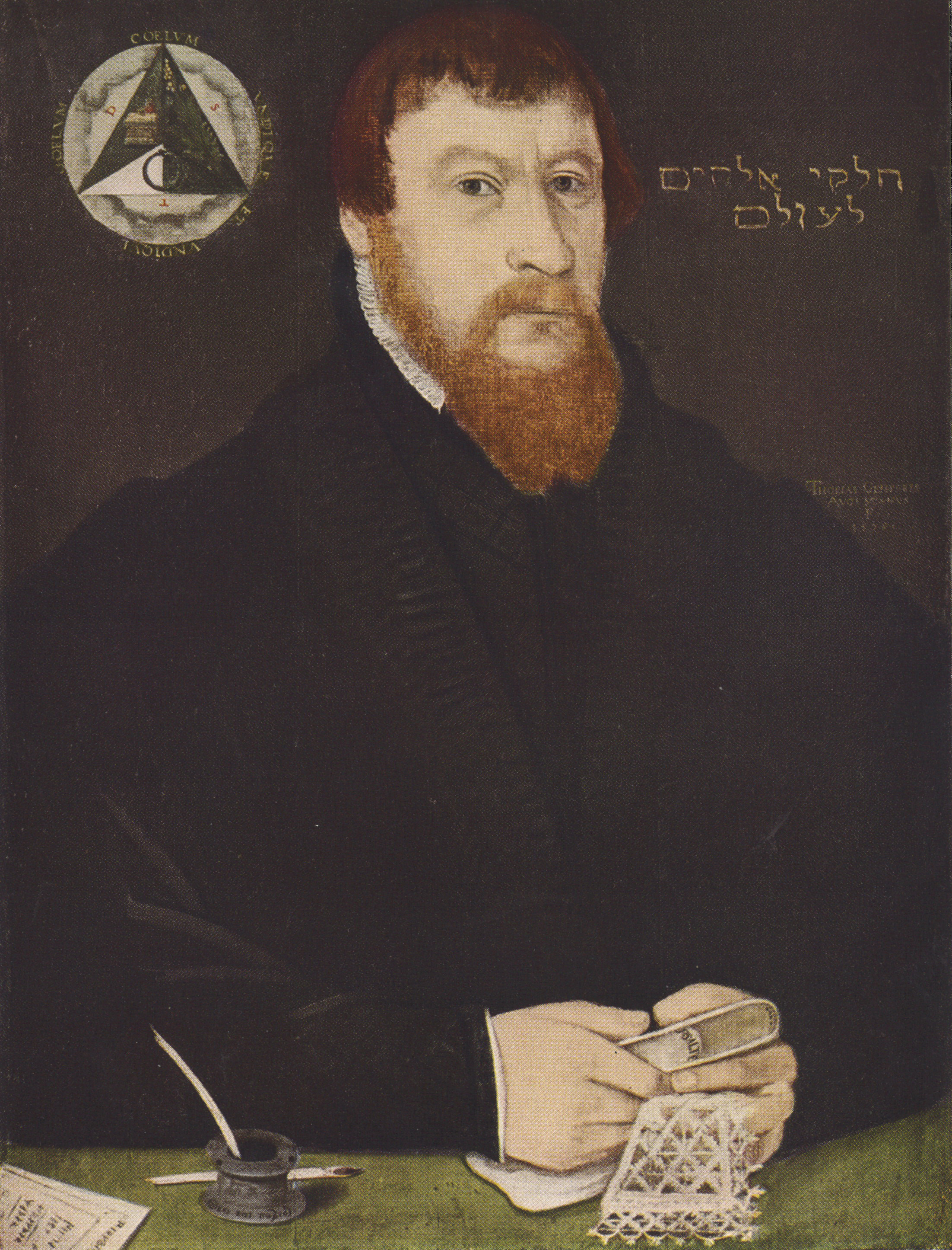 Anders Sørensen Vedel (1542-1616), Danish clergyman and historian.